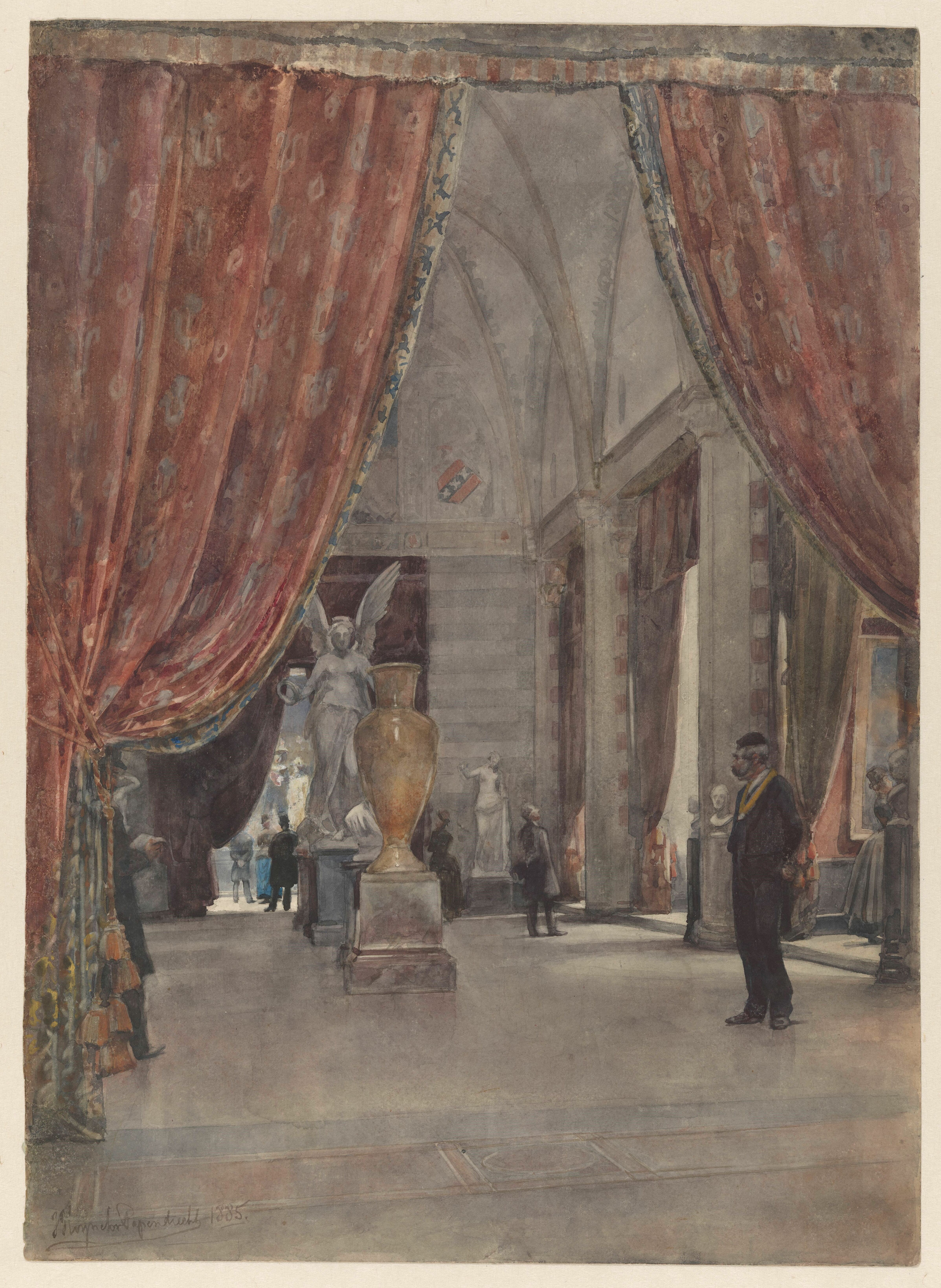 Honour Gallery of the Rijksmuseum Amsterdam, Jan Hoynck van Papendrecht, 1885, watercolour on paper, 50 x 36 cm, Rijksmuseum Amsterdam